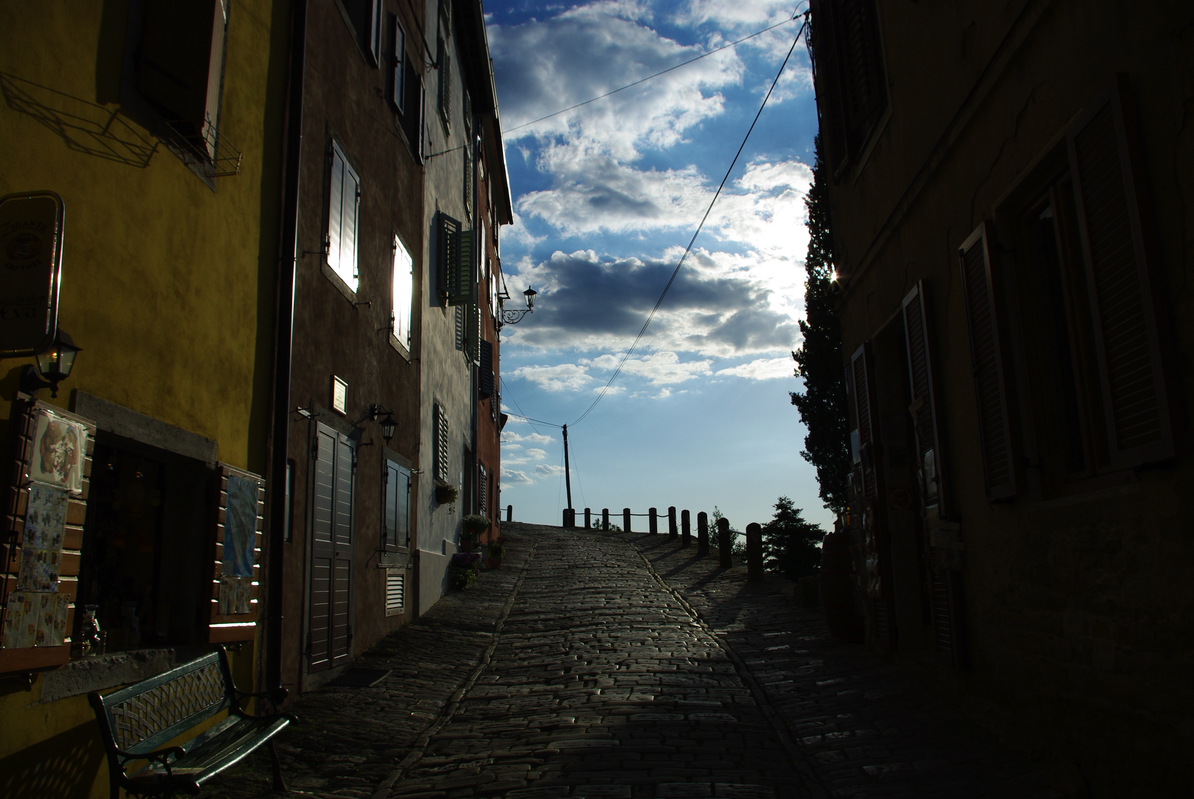 Street in Motovun, Istria, Croatia.